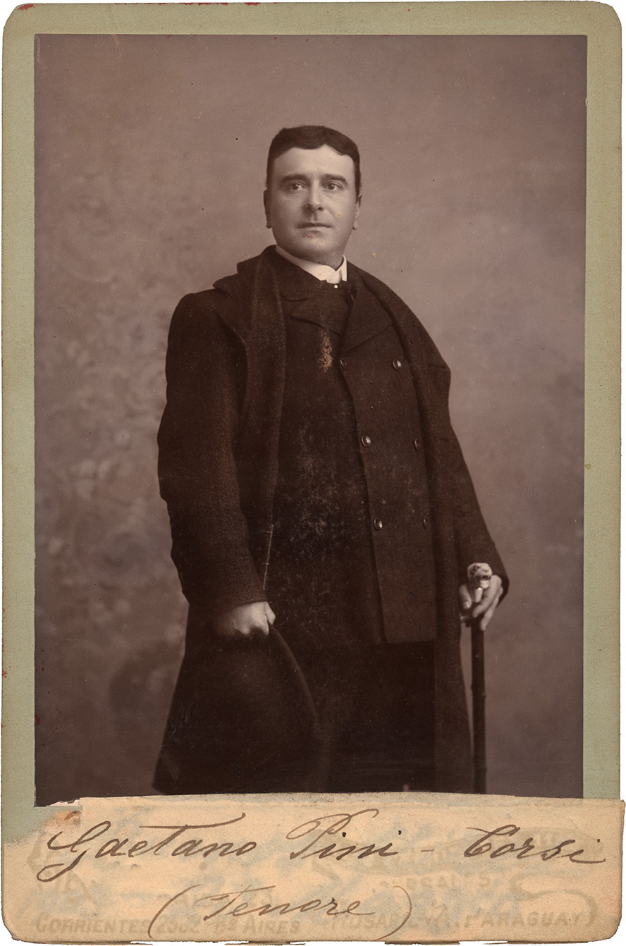 Portrait of Gaetano Pini Corsi, tenor (1868-). Photo by Caffaro e Coia.